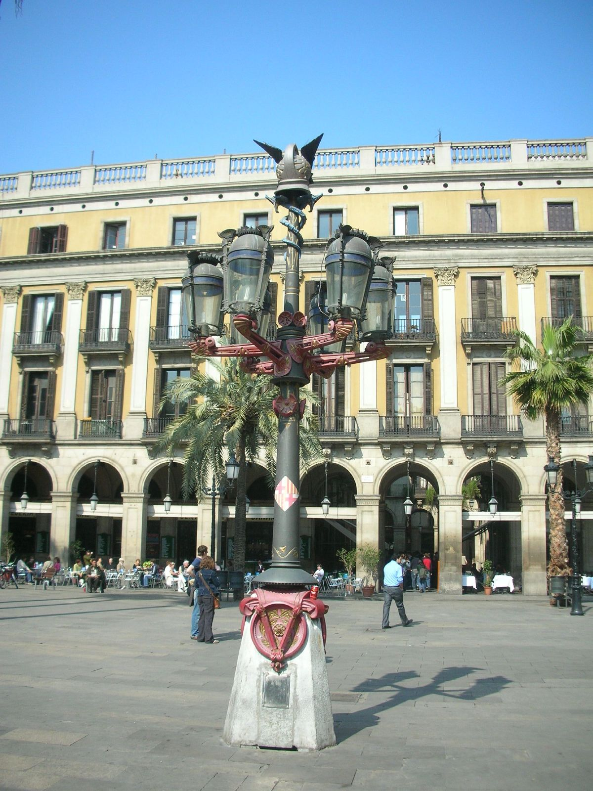 A Gaudi lamp post at the Placa Reial in Barcelona, Spain.